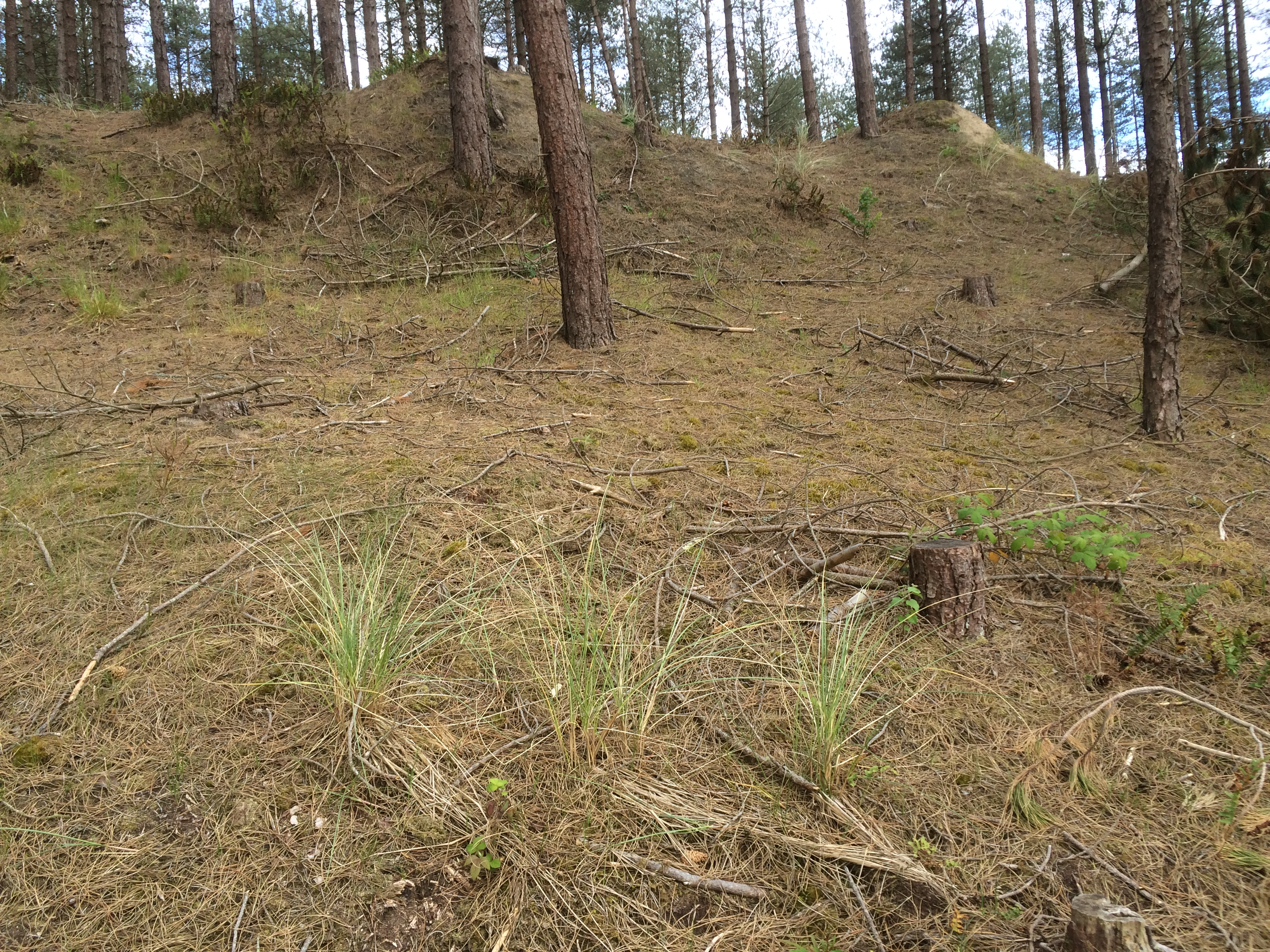 Newborough Warren as it is today.